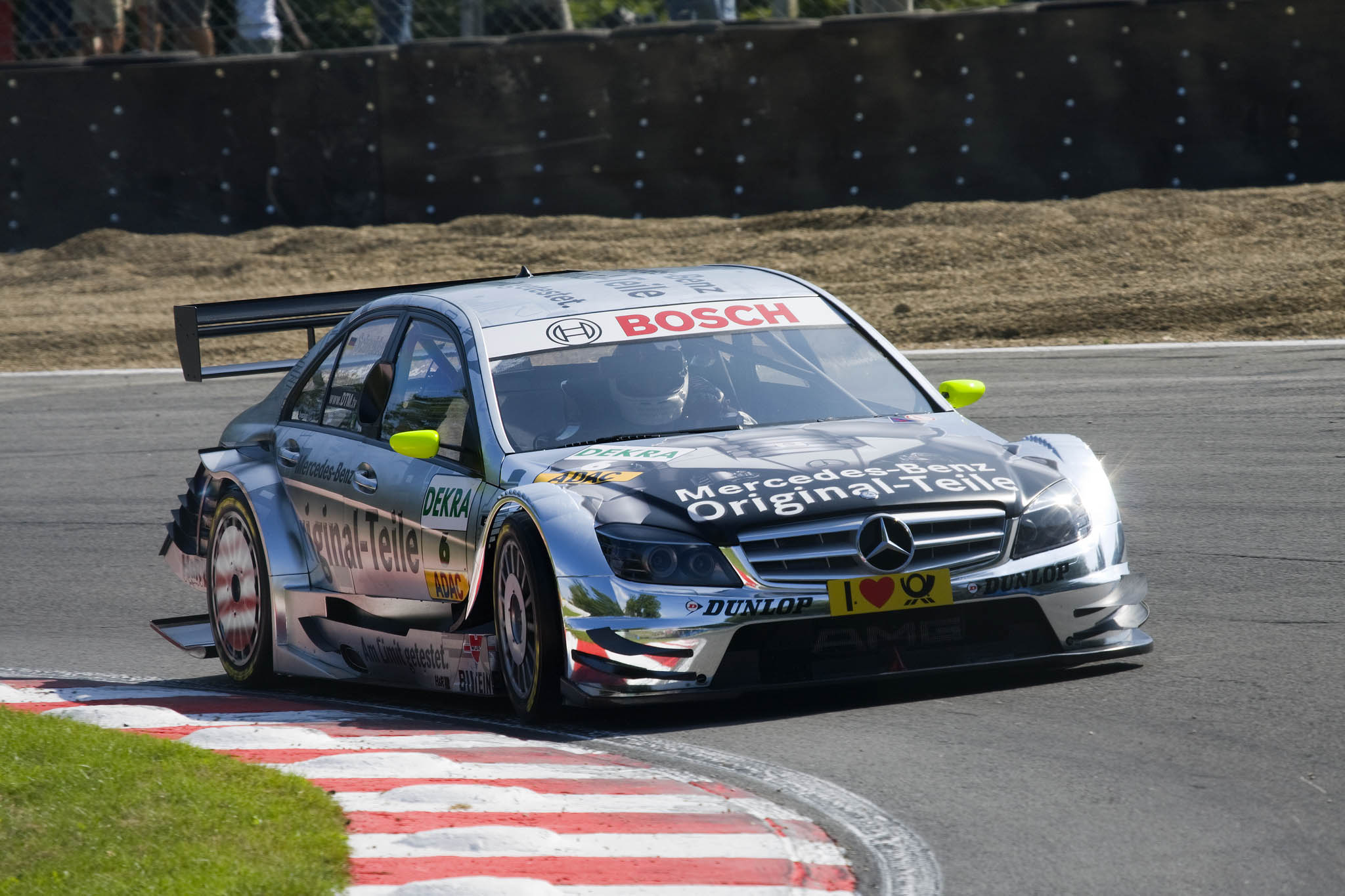 DTM Round at Brands Hatch 2008